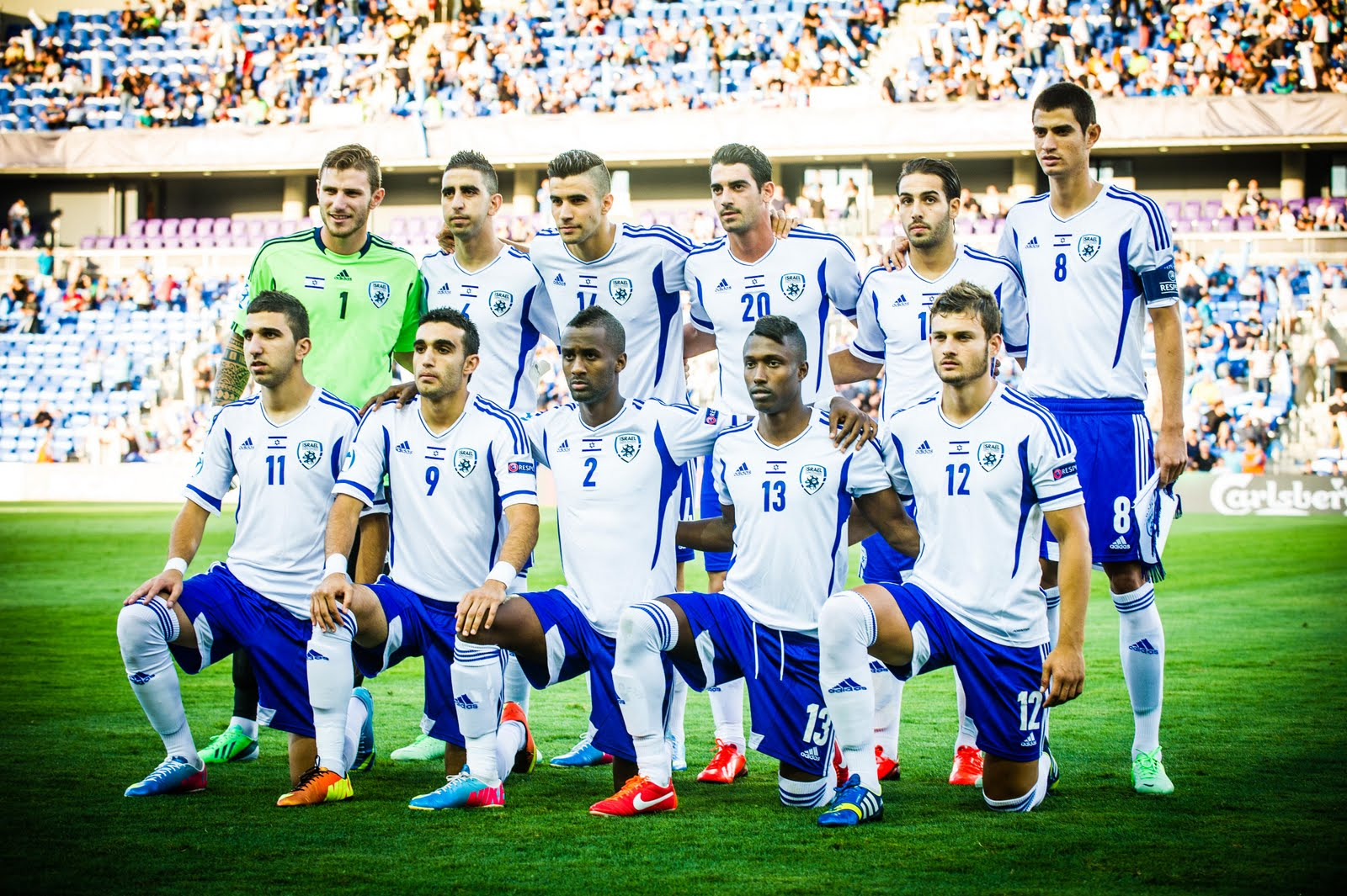 Israel line-up against Norway in opening match during UEFA U-21 European Championships. From left to right: Upper line: Boris Klaiman, Marwan Kabha, Orr Barouch, Omri Ben Harush, Eyal Golasa, Nir Biton Lower line: Moanes Dabour, Mohammed Kalibat, Eli Dasa, Taleb Tawatha, Edi Gotlieb